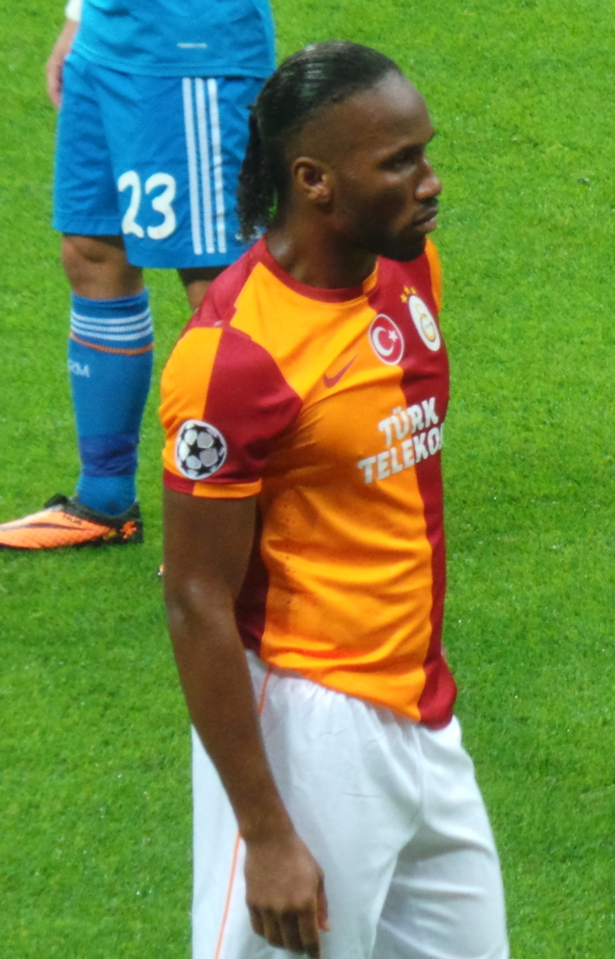 Drogba against Real Madrid